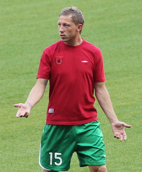 Rafał Murawski